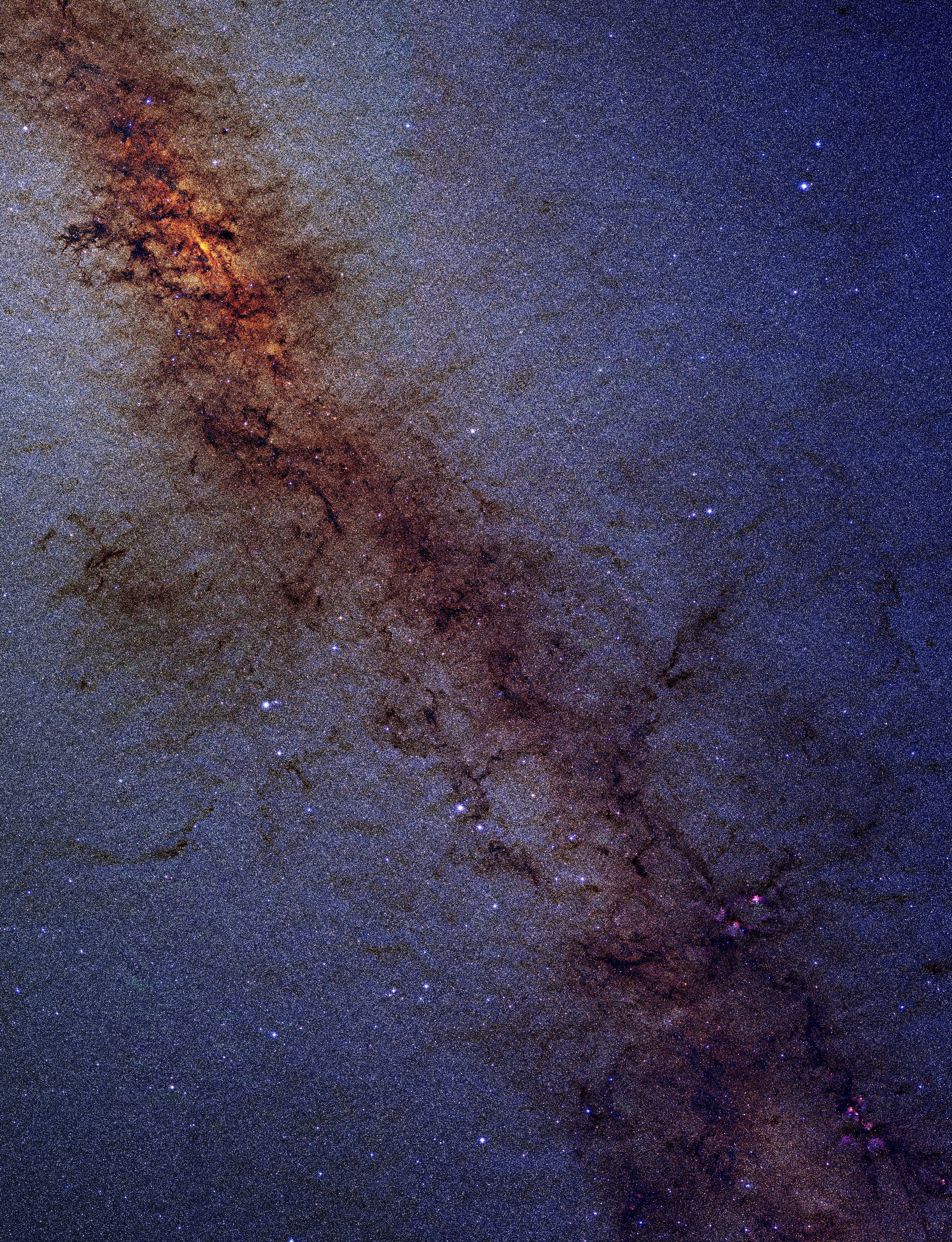 Center of our Milky Way Galaxy, located in the constellation of Sagittarius, a 2MASS (Two Micron All-Sky Survey) image. In visible light the lion's share of stars are hidden behind thick clouds of dust. This obscuring dust becomes increasingly transparent at infrared wavelengths. This 2MASS image, covering a field roughly 10 x 8 degrees (about the area of your fist held out at arm's length) reveals multitudes of otherwise hidden stars, penetrating all the way to the central star cluster of the Galaxy. This central core, seen in the upper left portion of the image, is about 25,000 light years away and is thought to harbor a supermassive black hole. The reddening of the stars here and along the Galactic Plane is due to scattering by the dust; it is the same process by which the sun appears to redden as it sets. The densest fields of dust still show up in this mosaic. Also evident are several nebulae to the lower right, including the Cat's Paw Nebula. The 2MASS analysis software has identified and measured the properties of almost 10 million stars in this spectacular field alone.